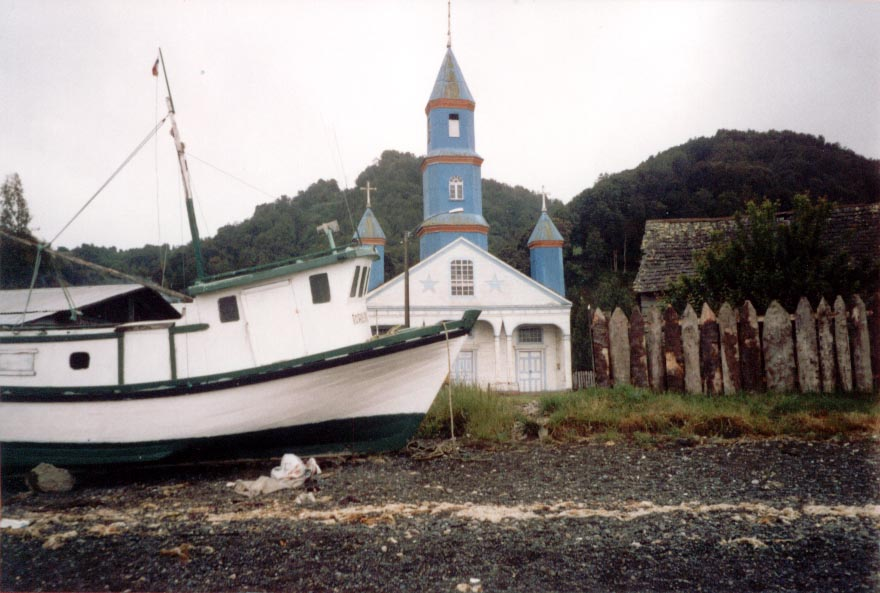 Tipical wood church of Chiloe', Church of Tenaun, World Heritage